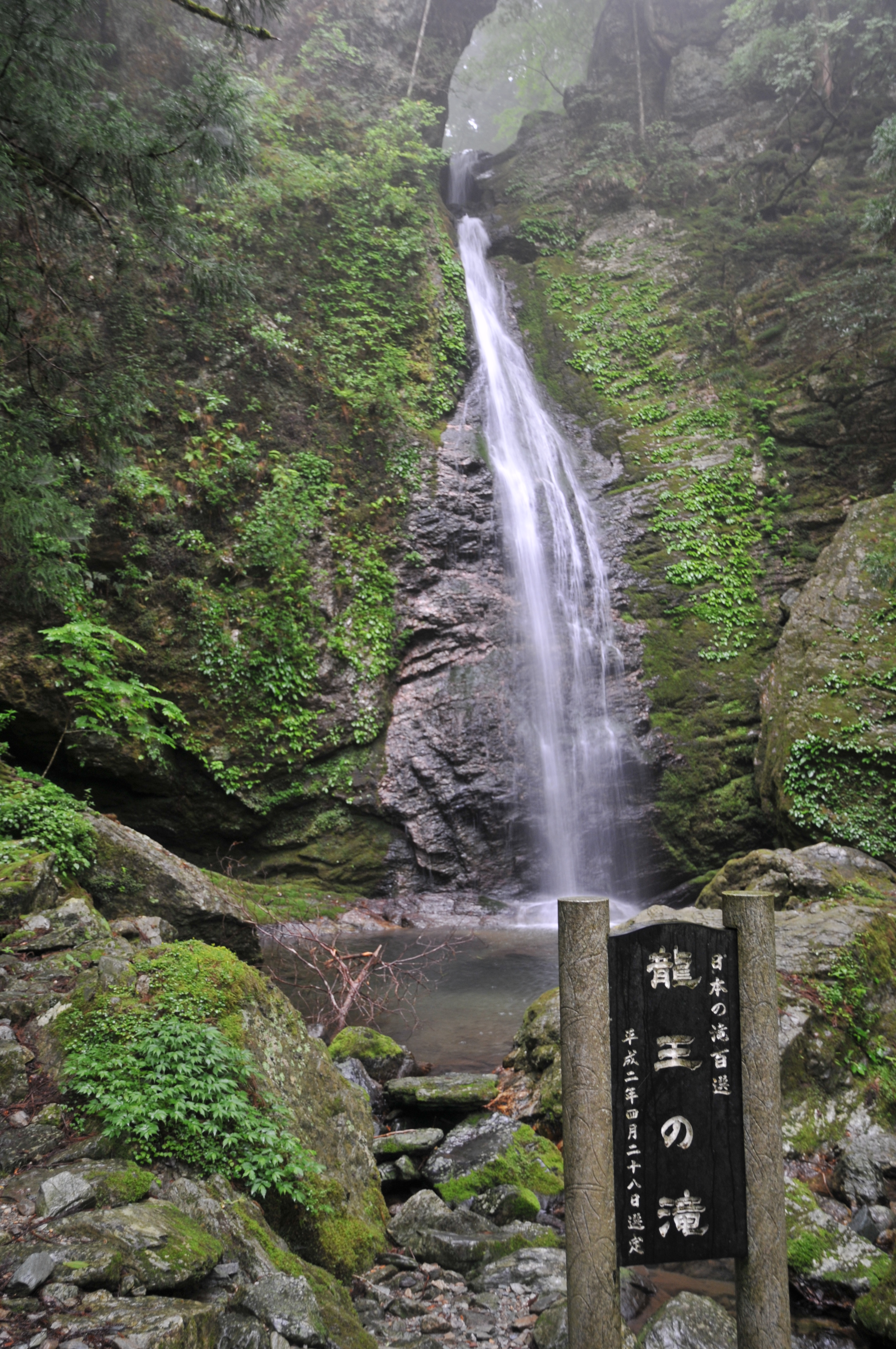 Ryūō falls